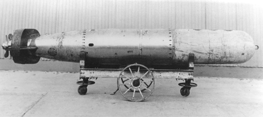 A U.S. Navy Mark XIII Mod. 6 aircraft torpedo at the Newport Torpedo Station, Rhode Island (USA), circa the mid-1940s. This modification of the Mark XIII was fitted with a shroud ring around its tail fins.